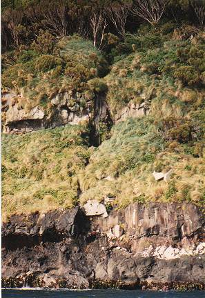 South Coast of the southernmost island of the Auckland Islands group — Adams Island — showing typical steep cliffs and vegetation.